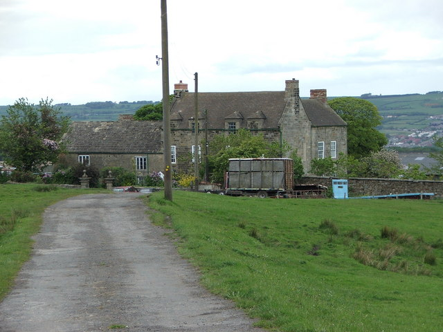 Pontop Hall Farm. Fantastic views of the valley - on a clear day!